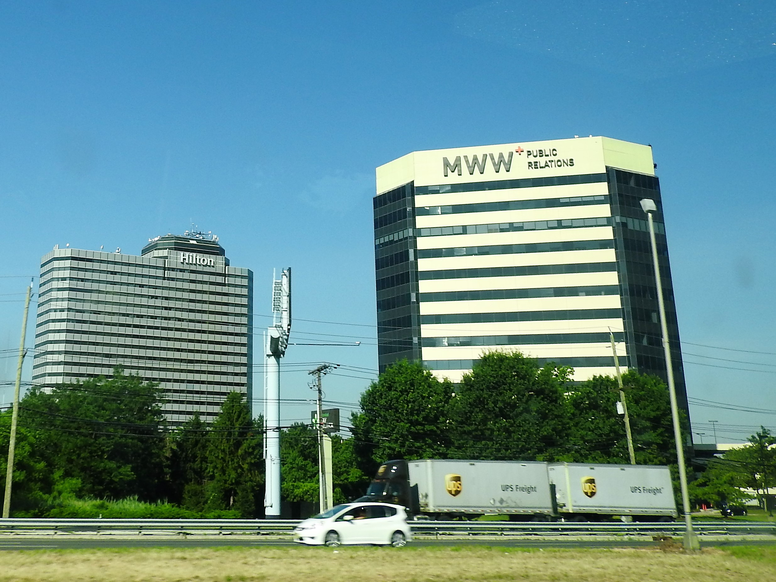 Looking west from a passing bus on NJ Rte 3 at office building and smaller Hilton on a sunny morning.